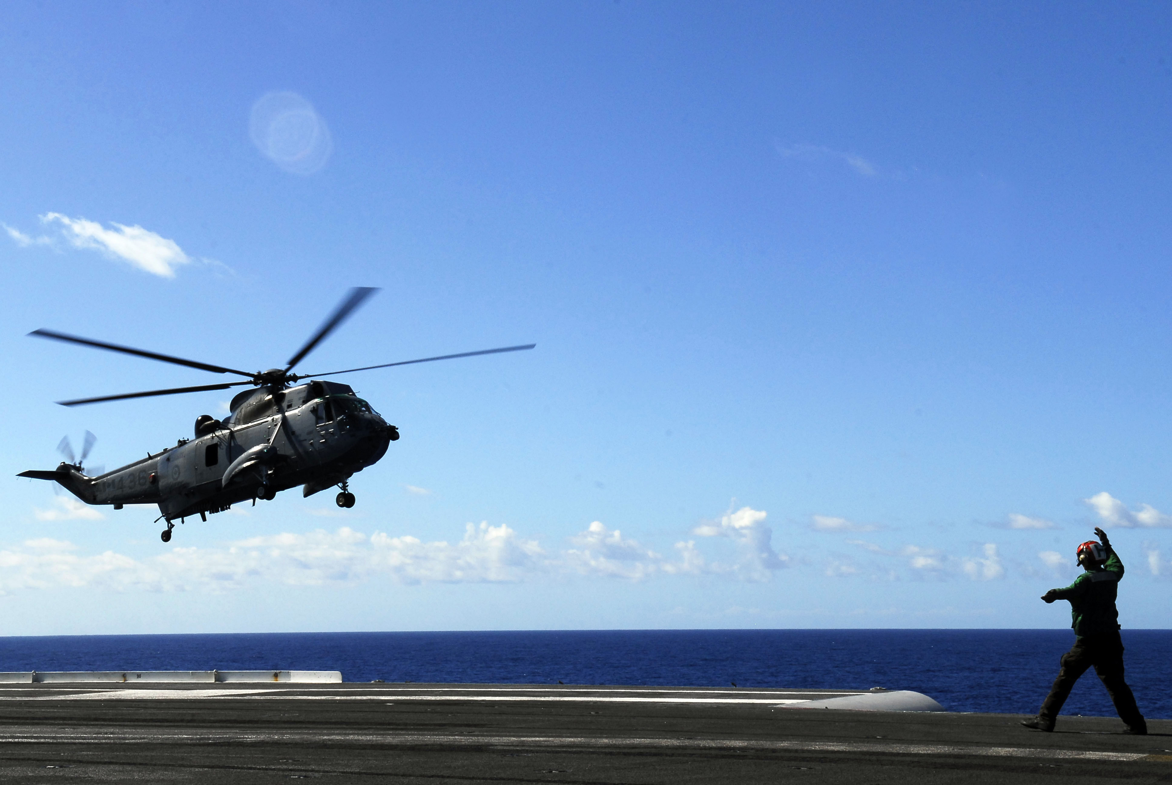 PACIFIC OCEAN (July 26, 2008) A CH-124 Sea King assigned to the Canadian 436 lands aboard the aircraft carrier USS Kitty Hawk (CV 63) after the conclusion of Rim of the Pacific 2008. The exercise included units from the United States, Australia, Chile, Japan, the Netherlands, Peru, South Korea, Singapore and the United Kingdom. (U.S. Navy photo by Mass Communication Specialist 3rd Class Kyle D. Gahlau/Released)